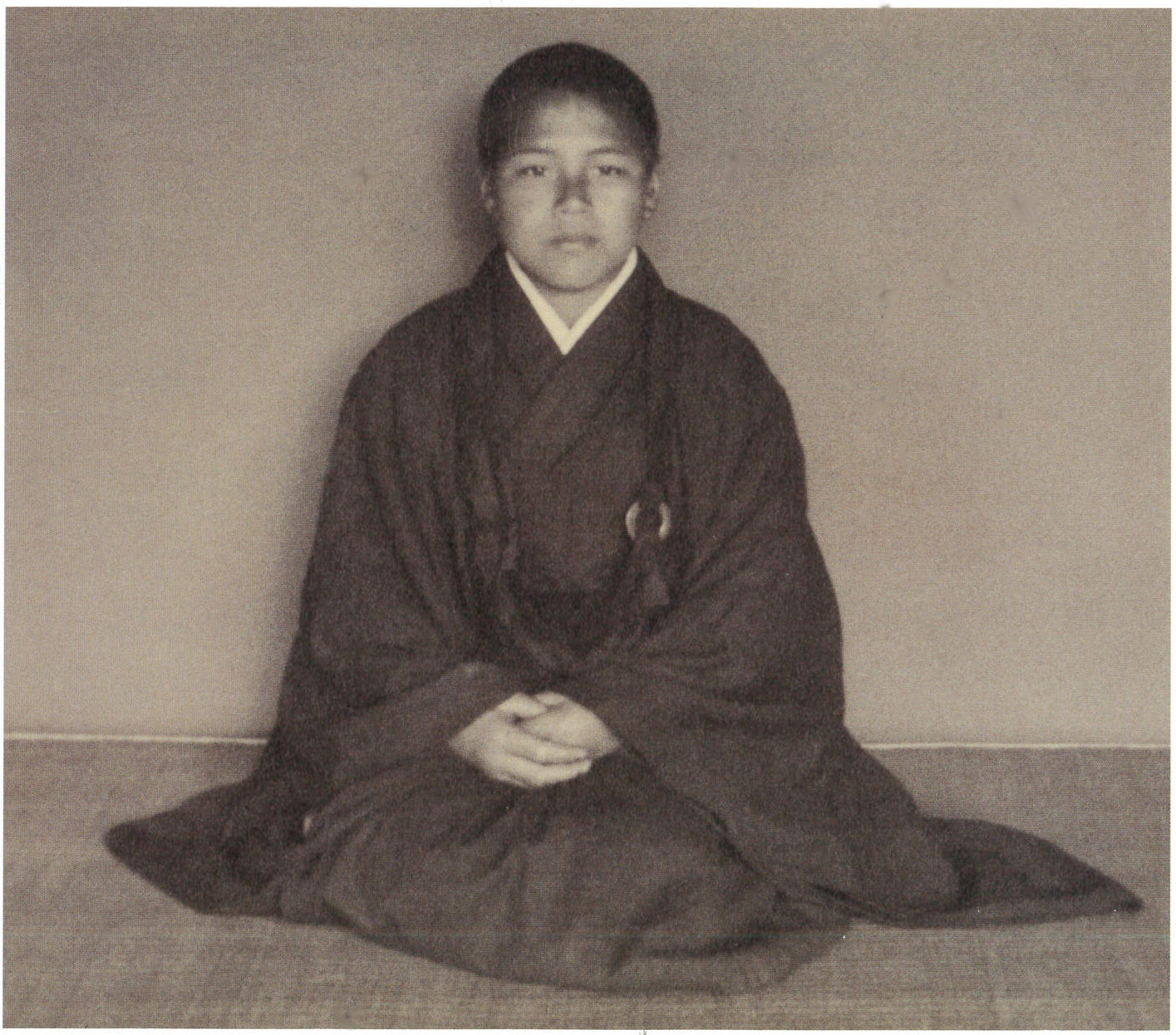 Photograph taken in 1929 by Teikō Shiotani (鹽谷定好, 1899–1988) of the monk Kōsen Daigaku (大覺弘宣, 1913–2000) at Kaizō-ji (海蔵寺), a temple in what is now Kotoura, Tottori Prefecture, Japan. Original title: 小坊主座像 (Kobōzu zazō); a title that has since been used consistently for this (and other photographs by Shiotani). In English, it has been titled "Boy priest sitting", "Portrait of seated child priest", and "Portrait of child priest seated". Published in Geijutsu Shashin Kenkyū (藝術寫眞研究 = 芸術写真研究, a long-defunct Japanese photography magazine), September 1929 issue, page 316.